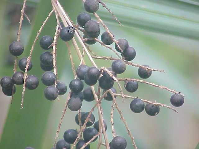 Species: Sabal minor Family: Arecaceae Image No. 1